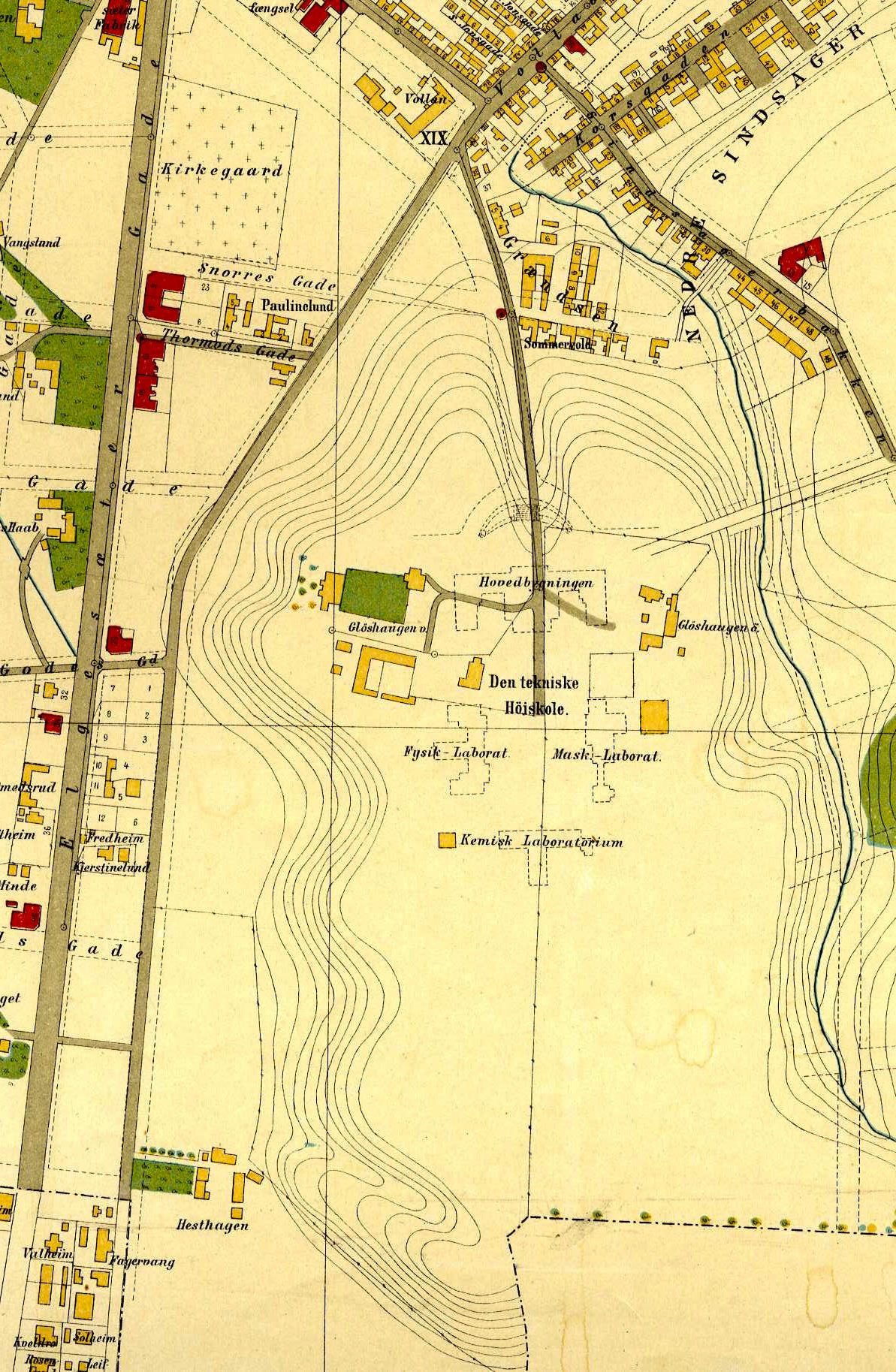 Segment of a map of Trondheim. The planned buildings of NTH, The Norwegian Institute of Technology were not yet built. They are drawn in a broken line in the area which is now known as Campus NTNU Gløshaugen